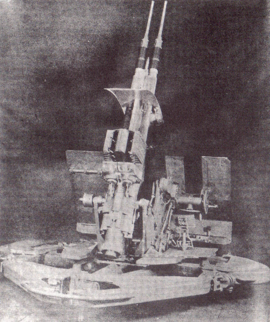 Late WWII German flak. NOTE: The image is most likely published in Germany between mid-1944 to mid-1945. An image belongs to the public domain 70 years after it was published, even though I cannot find its original photographer (one of the German weapon workers?). It was definitive that the weapon entered production in late 1944 and production ended before mid-1945, so the photograph of this weapon system would have been taken earlier than mid-1945, or possibly even earlier than mid-1944 if it was a prototype. Since no known example of such weapon survived, all photographs of this weapon was assumed to be taken in Germany during WWII. For further information see: en:3_cm_M.K._303_Flak.